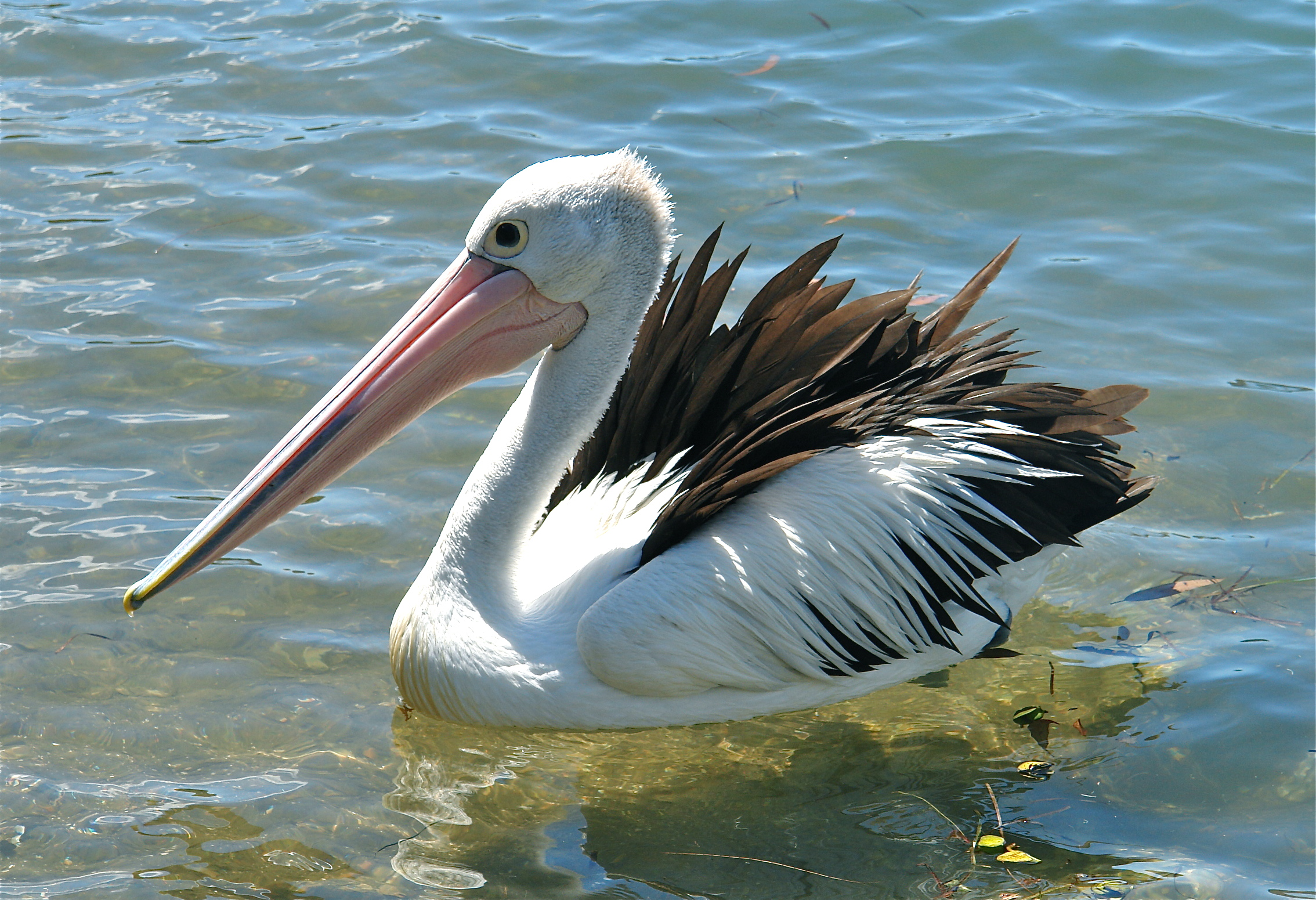 An Australian Pelican swimming in Parsley Bay, Brooklyn, NSW, Australia.